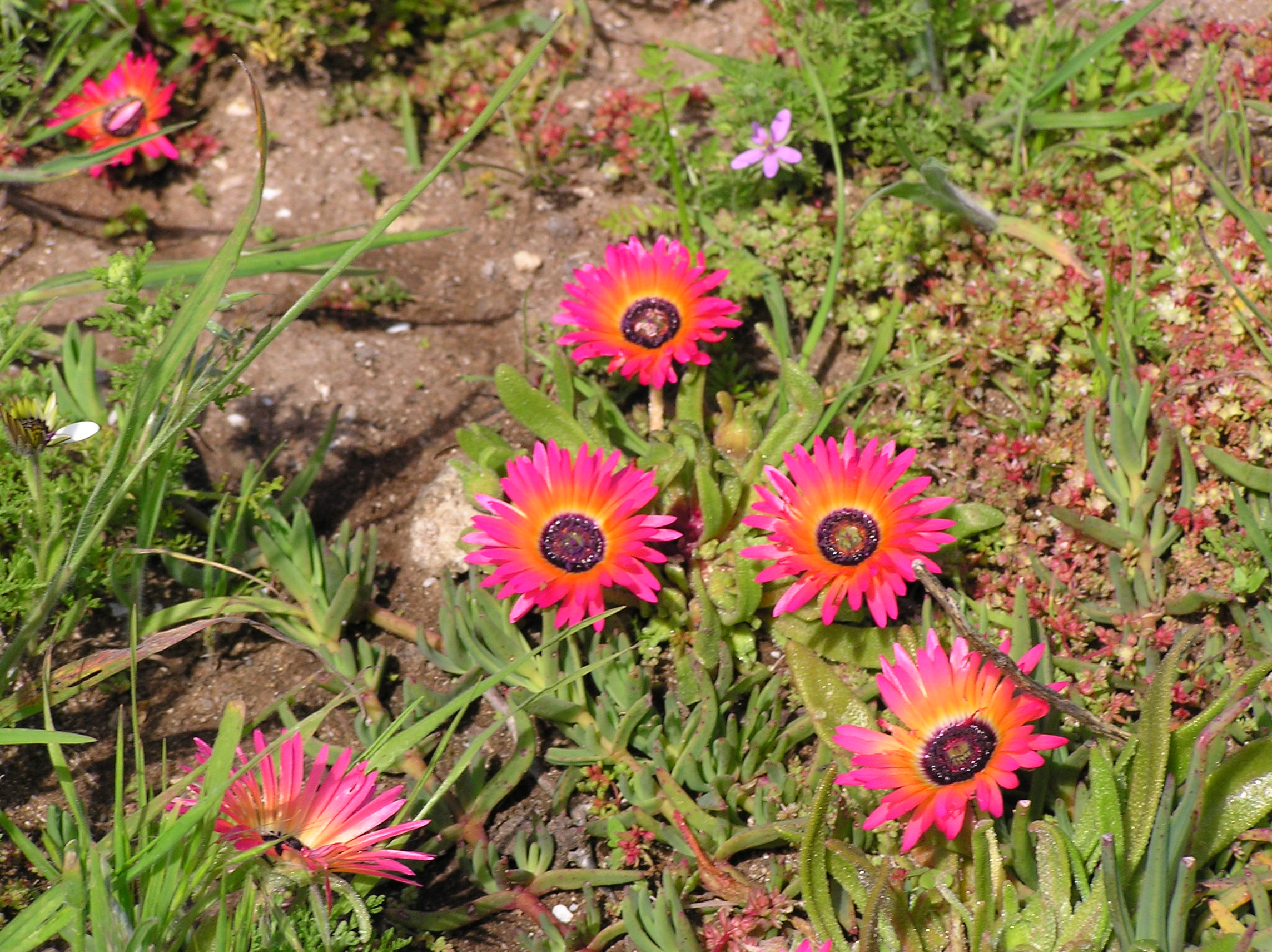 Narrow Leaf Bokbaaivygie, (Dorotheanthus apetalus (L.f.) .), West Coast National park, Western Cape, South Africa